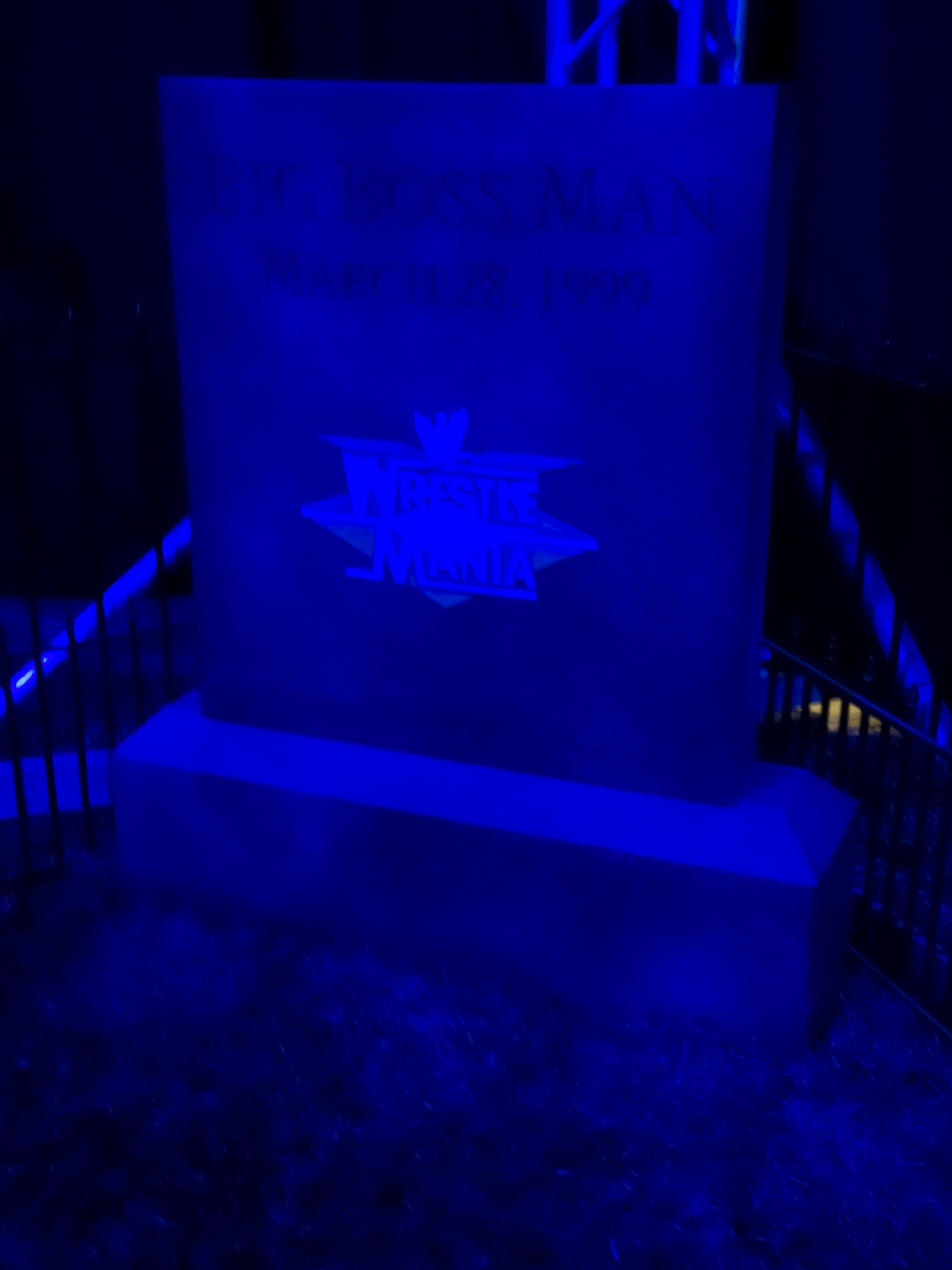 The Undertaker's Graveyard @ Axxess